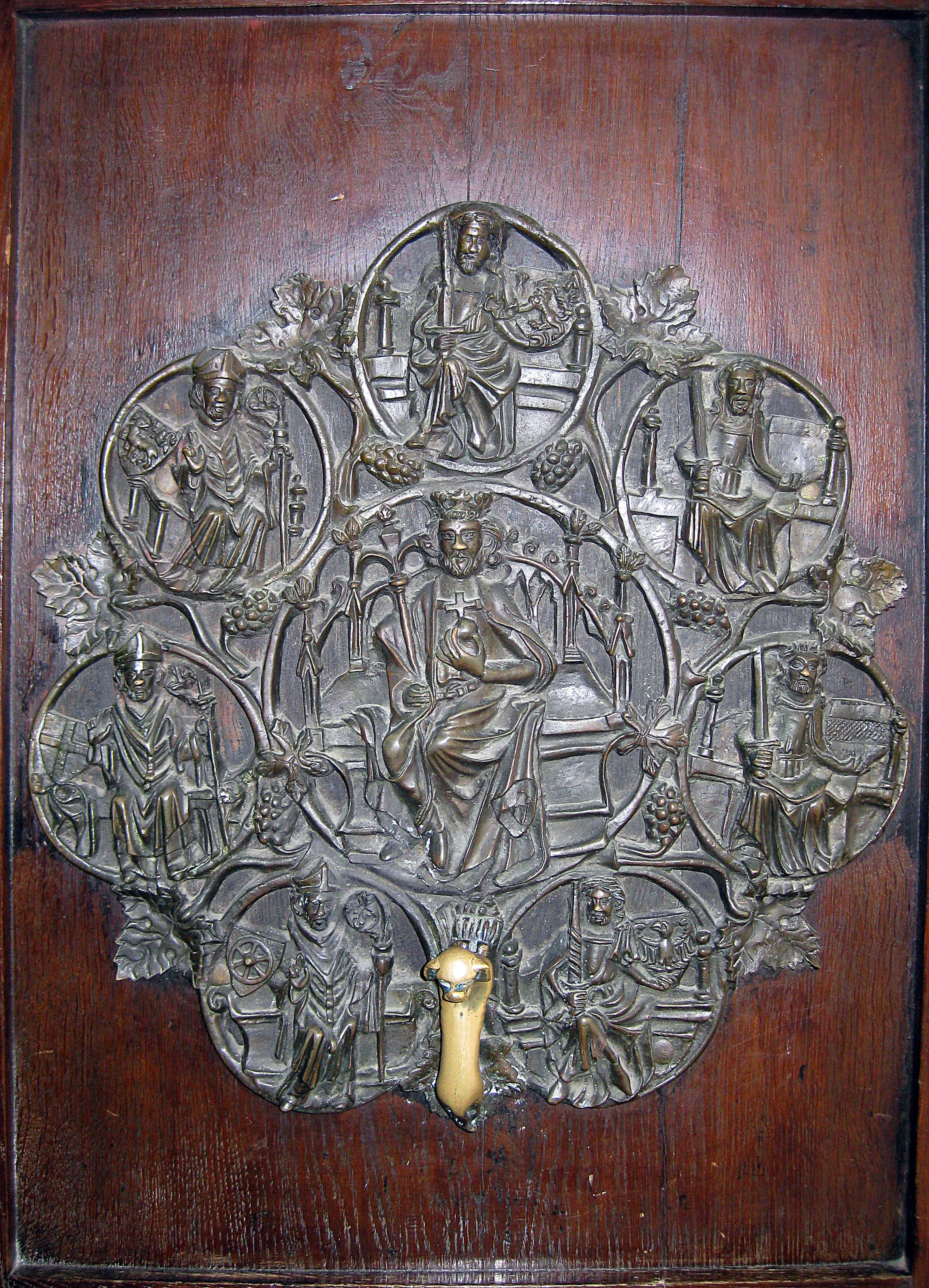 Gothic doorknocker at the portal of Lübeck's town hall.